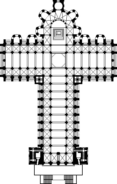 Plan of the Cathedral of Santiago de Compostela, Spain. This is a hypothetical reconstruction of the great pilgrimage church as it was in the 12th century. It has since been modified. Constructed between the years 1075 and 1188, by Maestro Bernardo el Viejo, el Maestro Esteban y el Maestro Mateo.